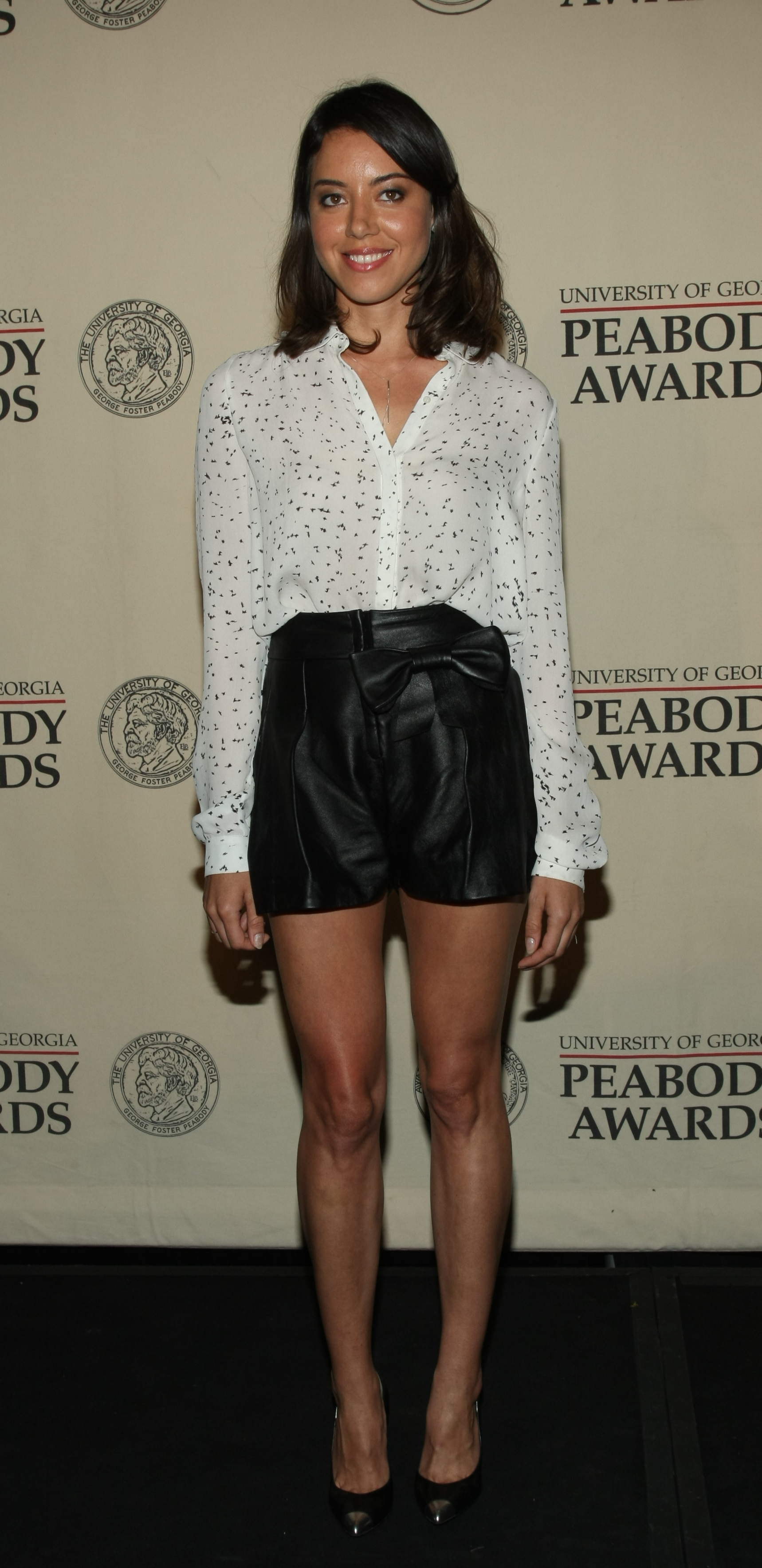 PHOTO CREDIT: ANDERS KRUSBERG / PEABODY AWARDS 71st Annual Peabody Awards Luncheon Waldorf=Astoria Hotel May 21, 2012